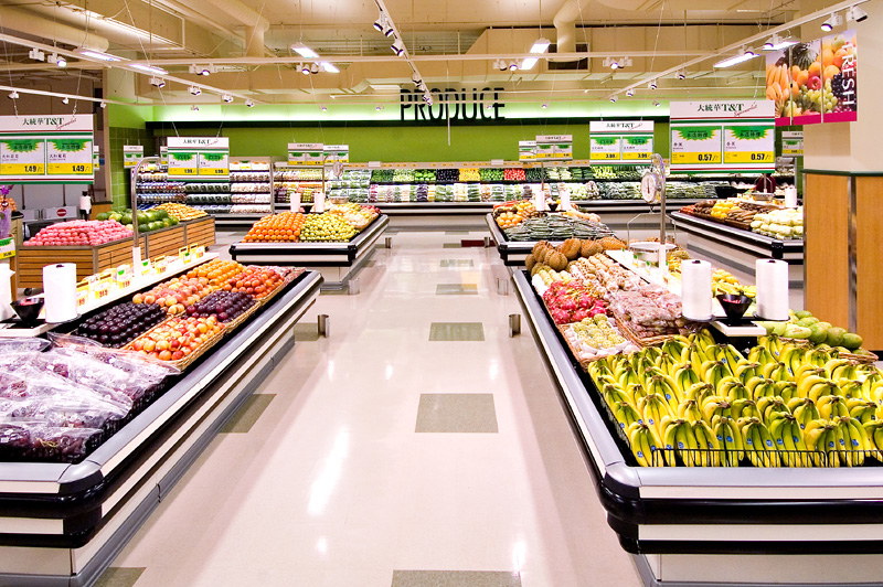 Inside a T&T Supermarket